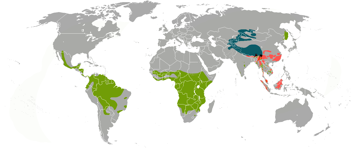 Derived from Genera maps.